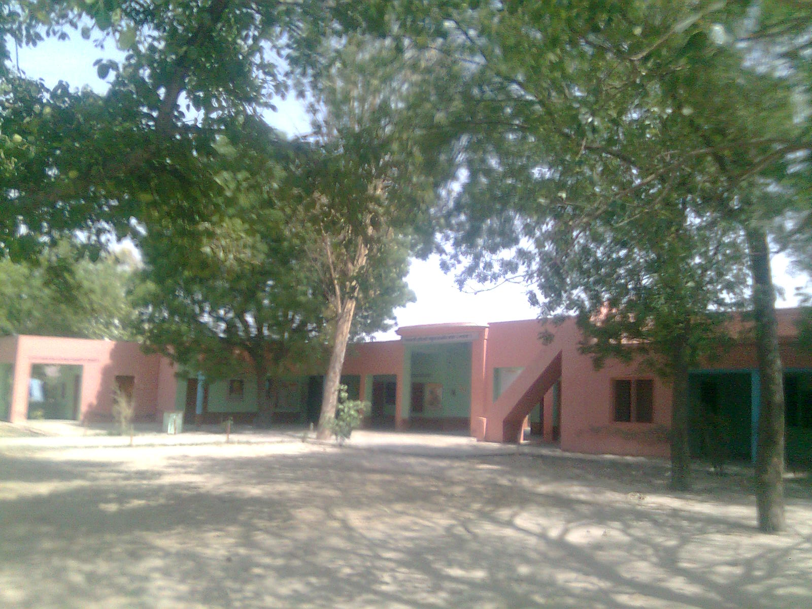 A view of the government primary school of Lakhmir Wala in Mansa district of Punjab.